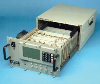 AN/UPX-41C Shipboard Interrogator